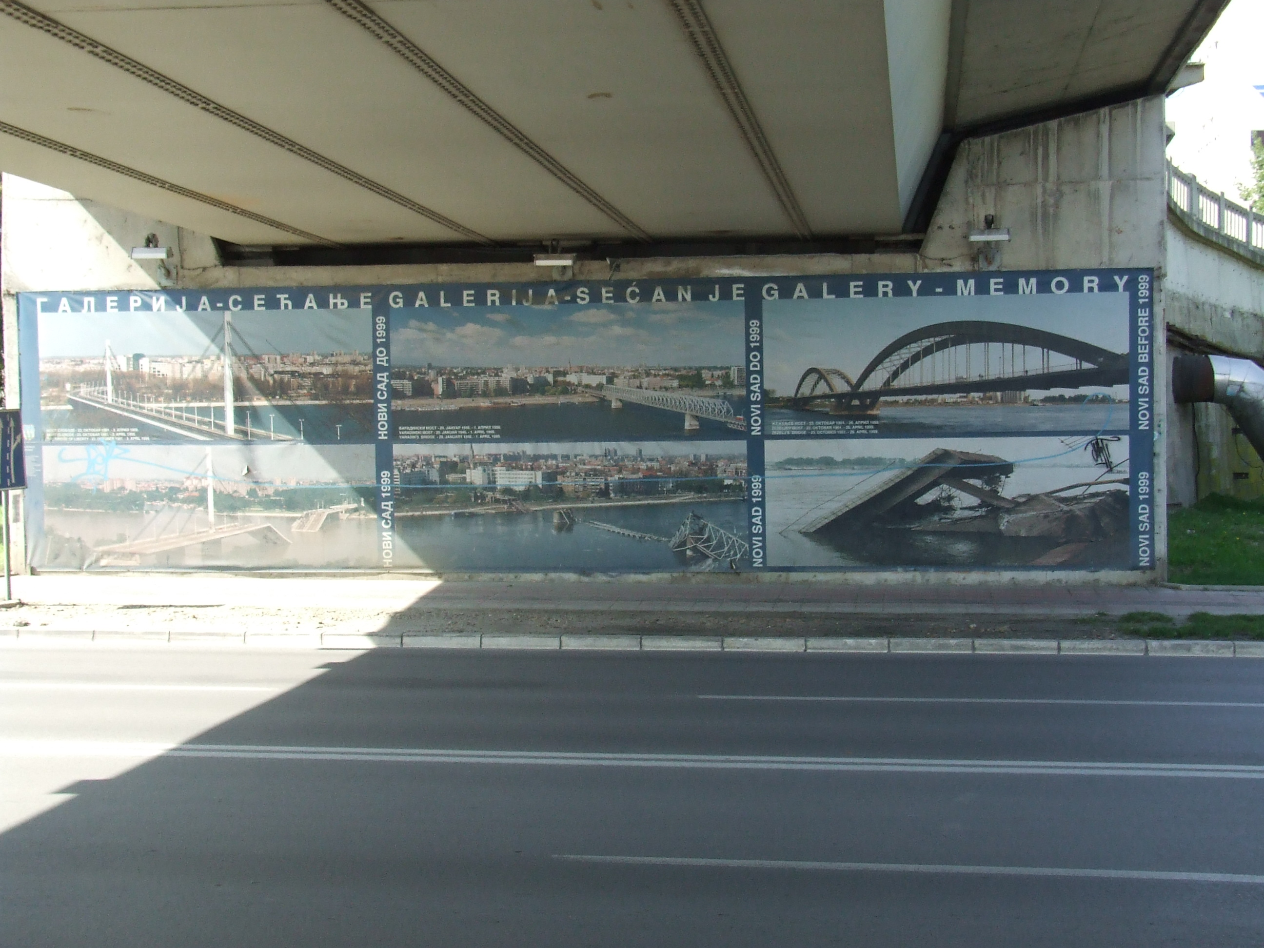 Gallery of Bridges, before and after 1999